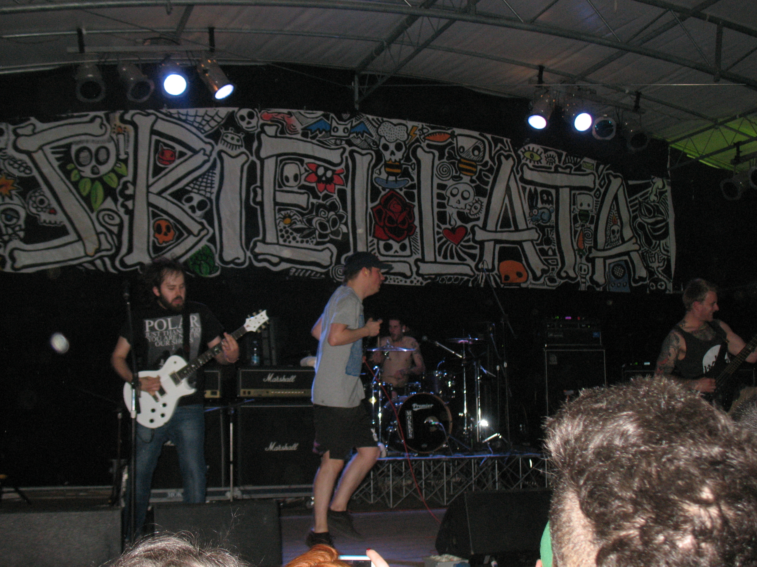 Welsh band Funeral for a Friend live at La sbiellata sanzenese, Olgiate Molgora (Italy), 2013-05-31